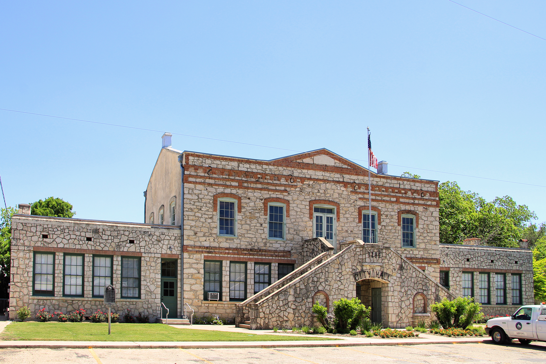 The Castroville City Hall located in Castroville, Texas, United States. The building was the first permanent county courthouse for Medina County before the county seat was moved to Hondo, Texas. The building became a school and then city hall.